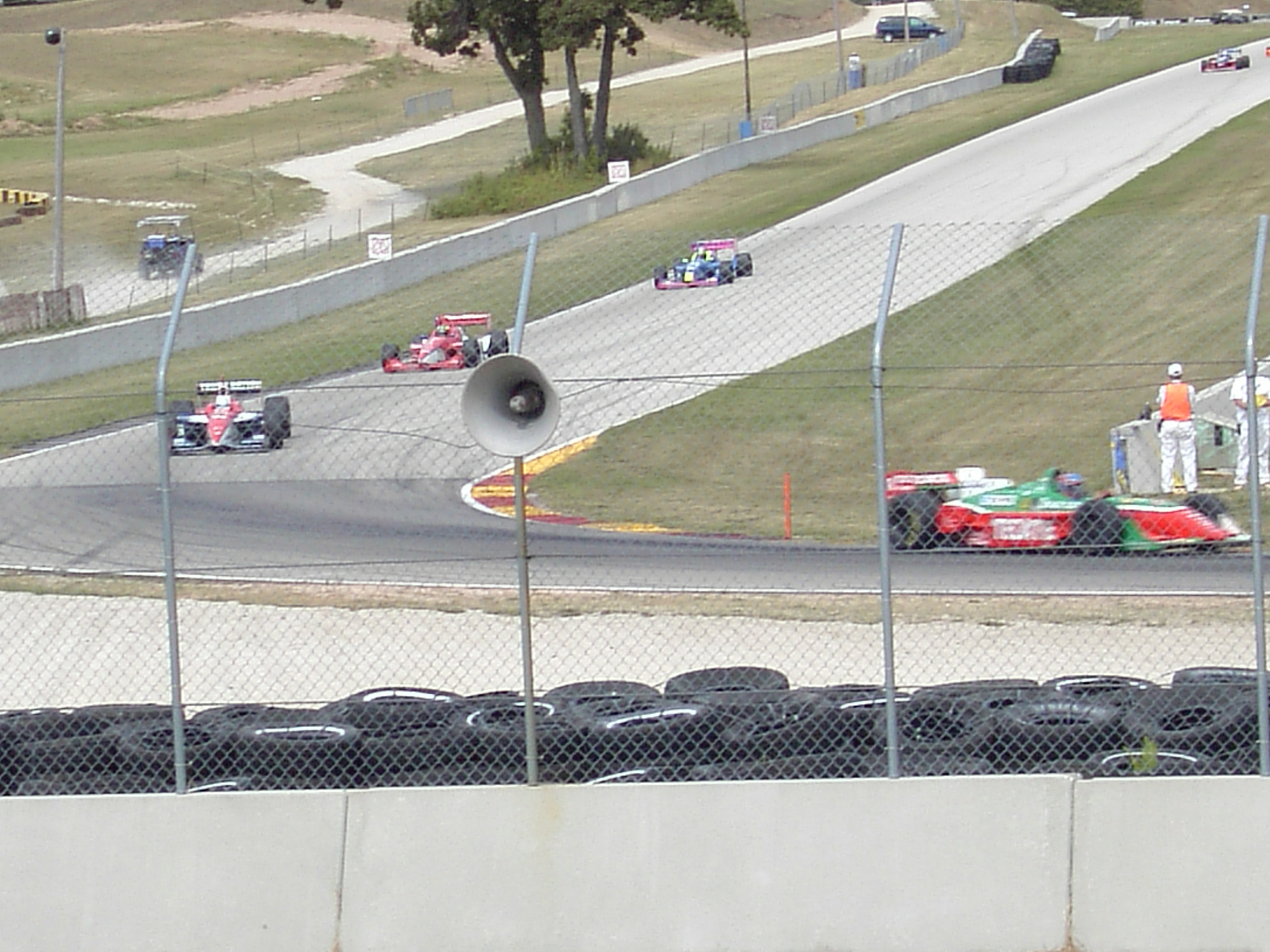 Retired CART cars going through turn eight at the Kohler International Challenge.